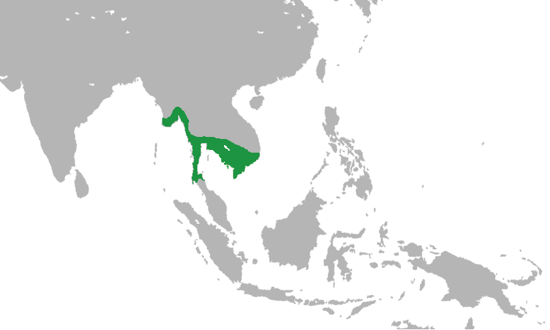 Map showing Funan and it's vassel states